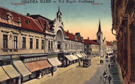 Tram in Oradea at Blvd. King Ferdinand (today Republic Street)